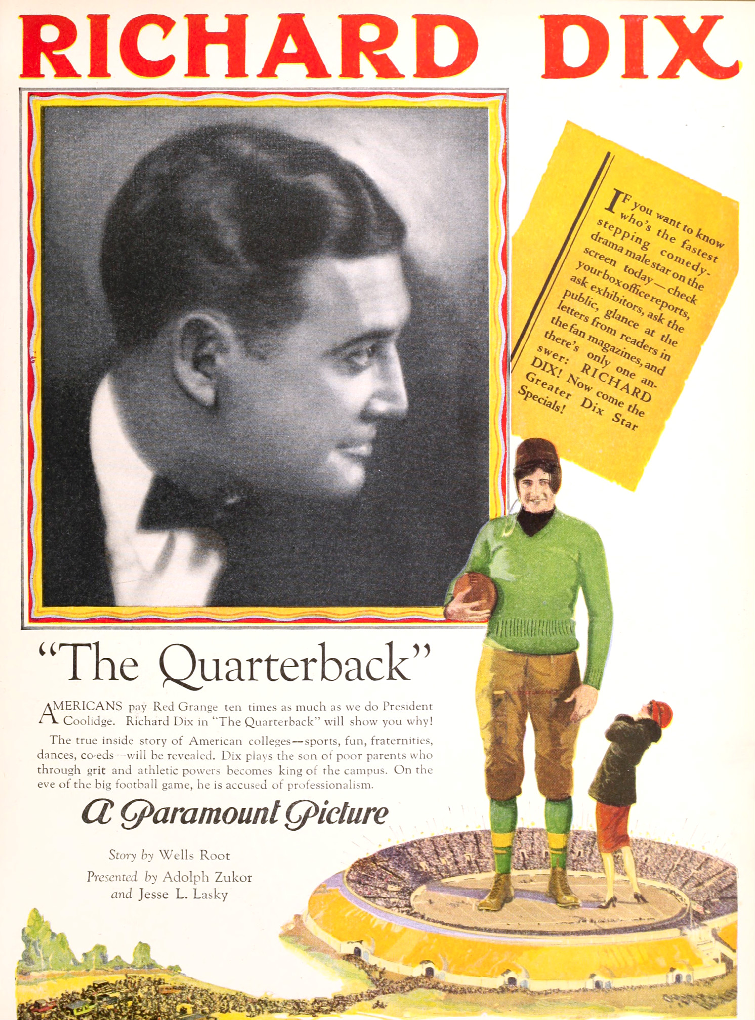 Ad for the 1926 Paramount film The Quarterback. Paramount did not mark this ad or any others in this journal with copyright marks. Motion Picture news copyrights did not apply to ads placed in the magazine--to editorial content only. US Copyright Office page 3-magazines are collective works (PDF) "A notice for the collective work will not serve as the notice for advertisements inserted on behalf of persons other than the copyright owner of the collective work. These advertisements should each bear a separate notice in the name of the copyright owner of the advertisement."